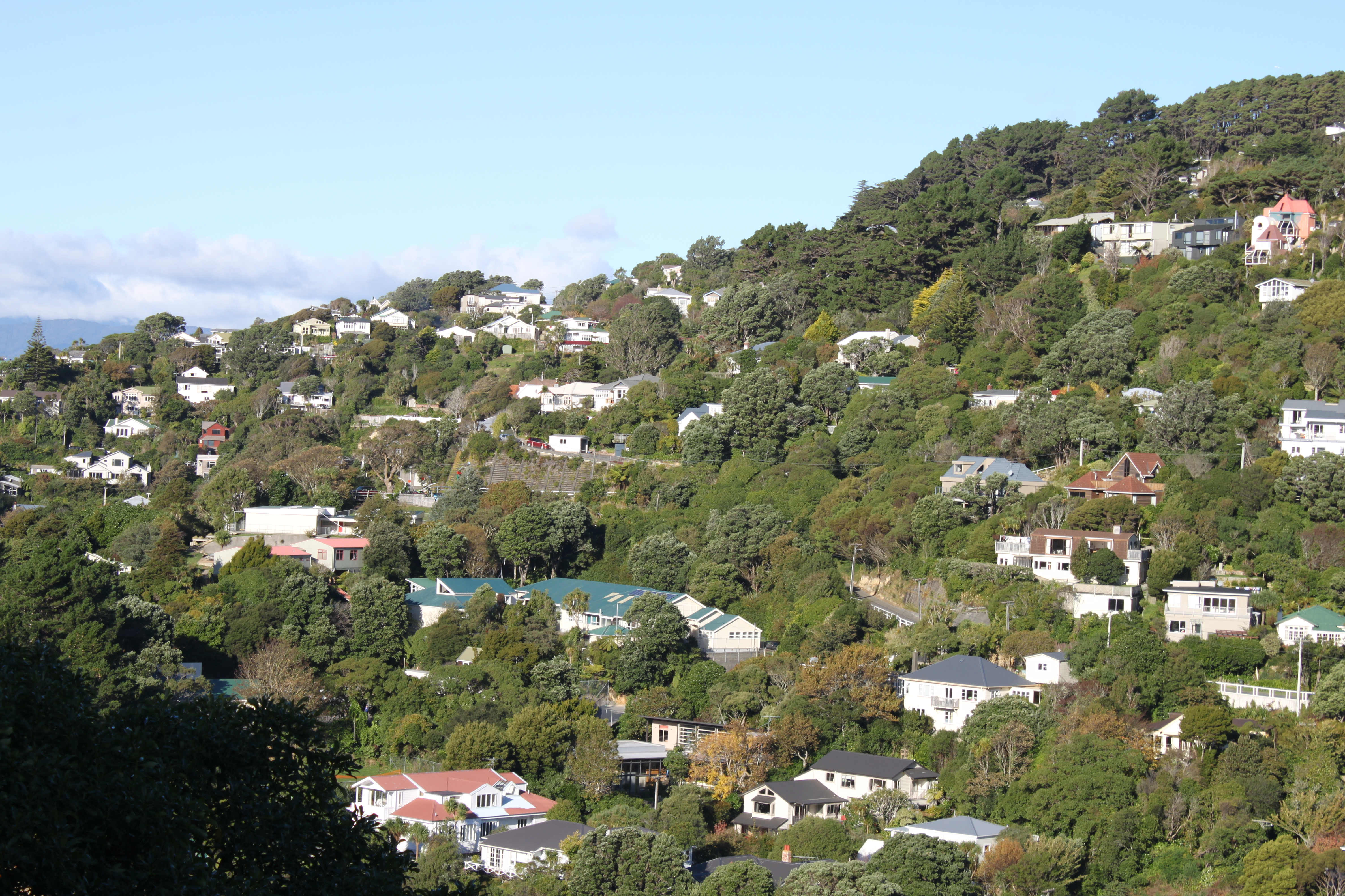 Wadestown, Wellington, New Zealand - looking from Crofton Downs - taken from Chartwell Drive